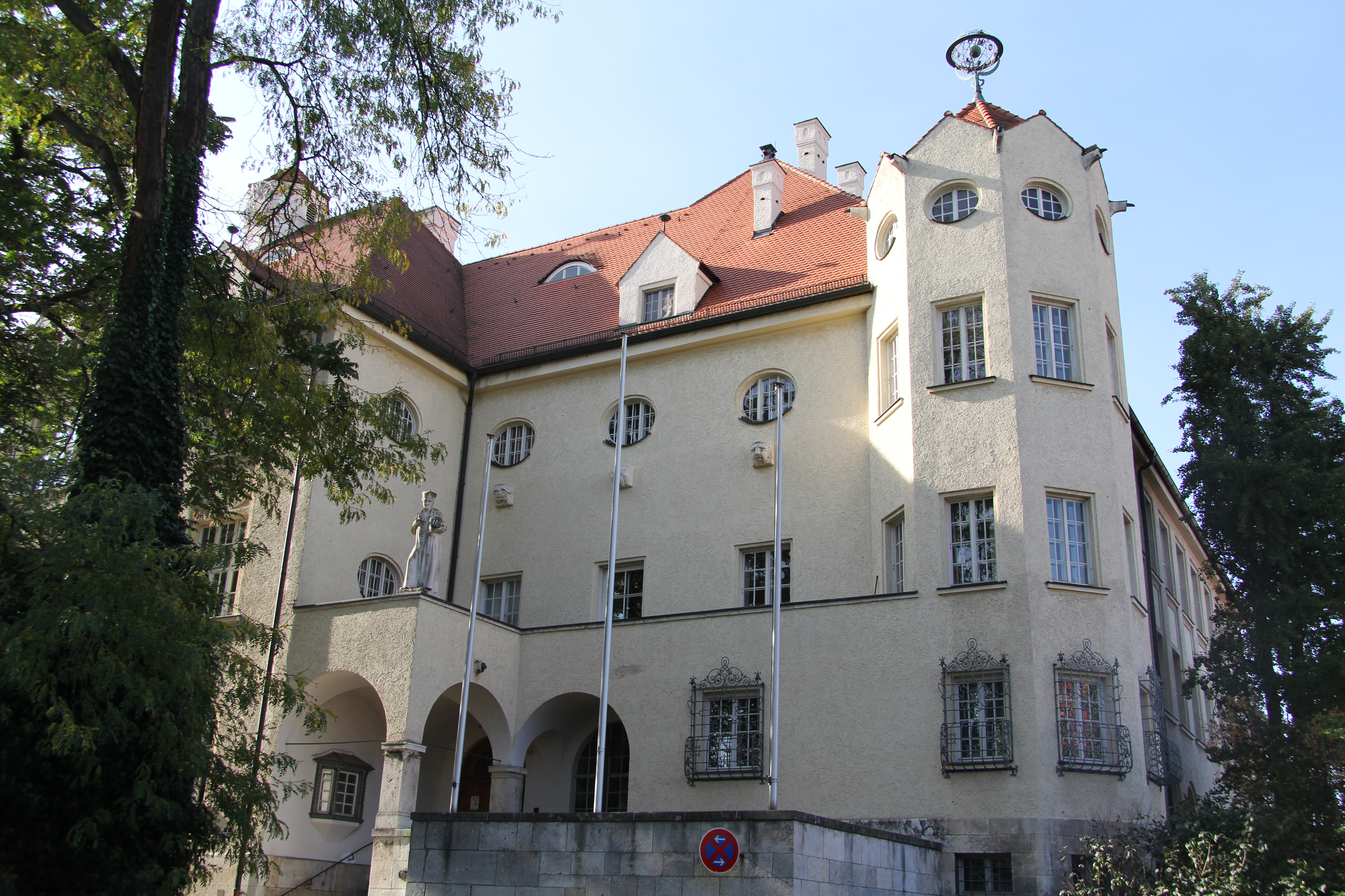 Ingolstadt, Christoph-Scheiner-Gymnasium, entrance east